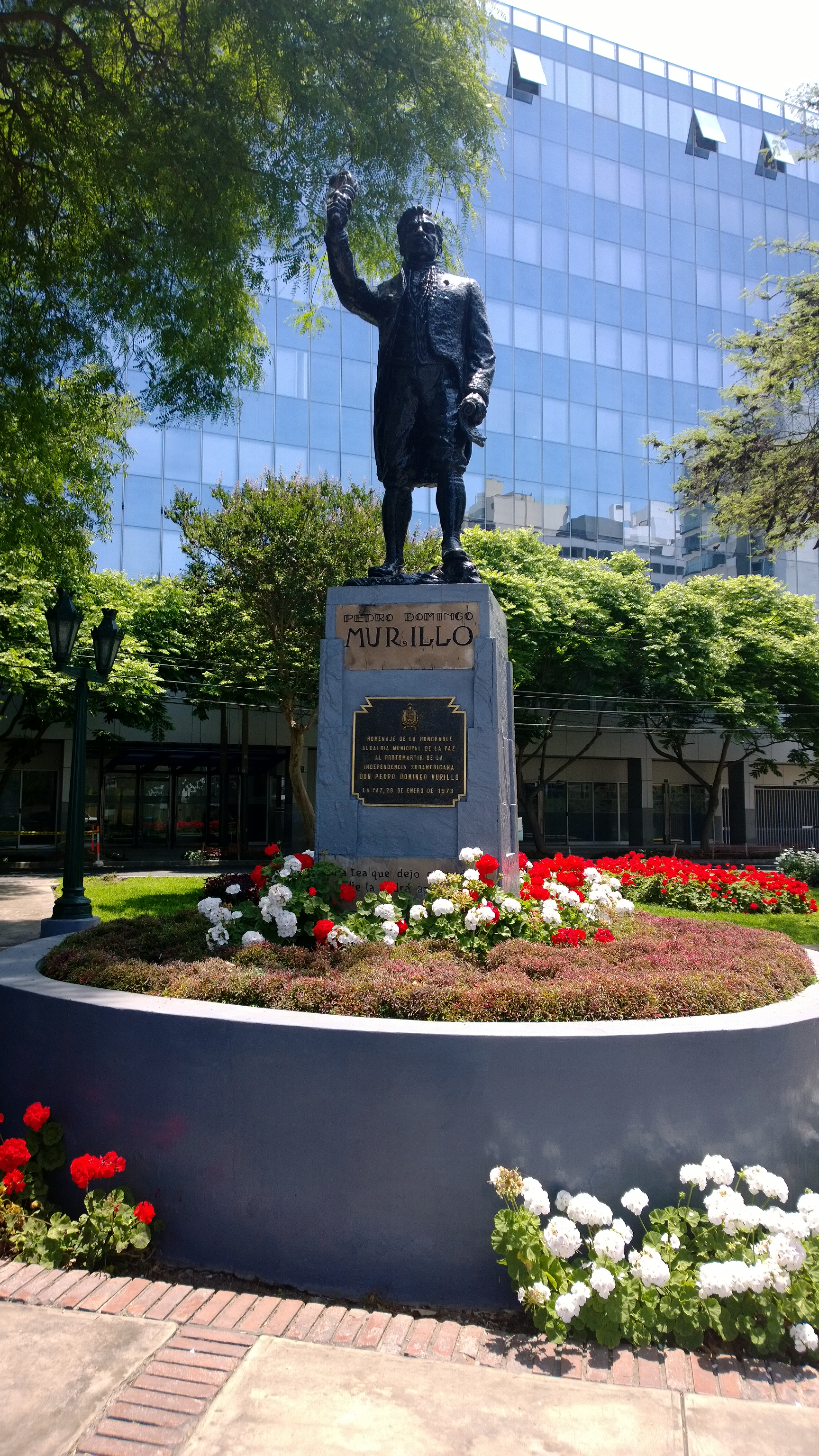 Pedro Domingo Murillo statue.